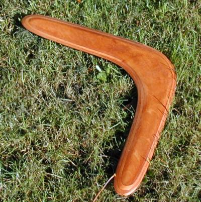 A typical wooden boomerang. Pic taken by Adrian Barnett, using Olympus C-2000Z), from